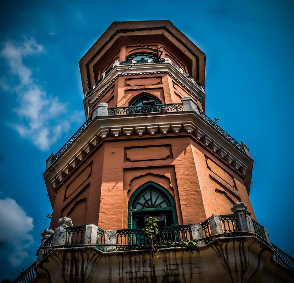 Ghanta Ghar Peshawar This is a photo of a monument in Pakistan identified as the KPK-4